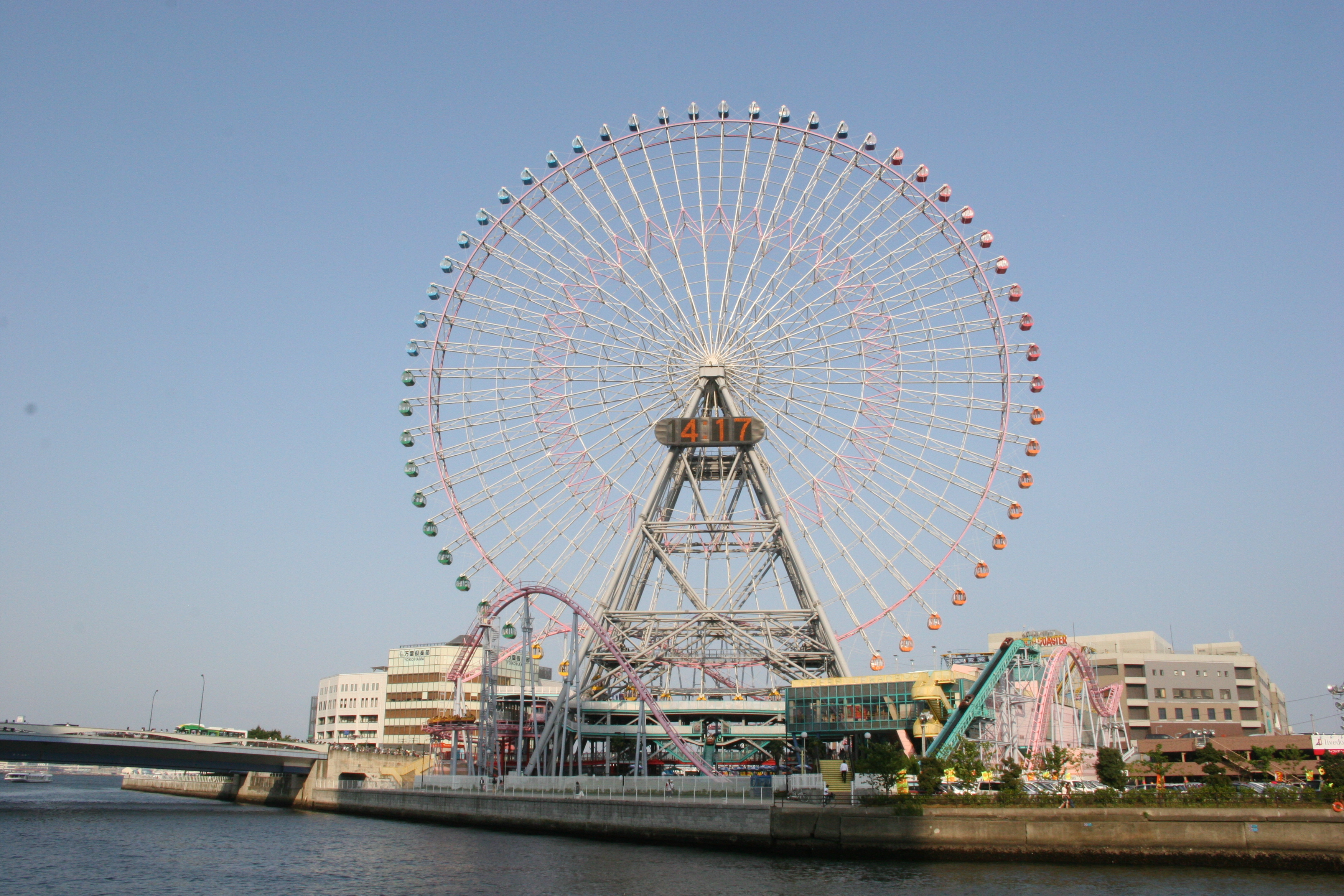 CosmoClock21,Yokohama city,Kanagawa pref,Japan